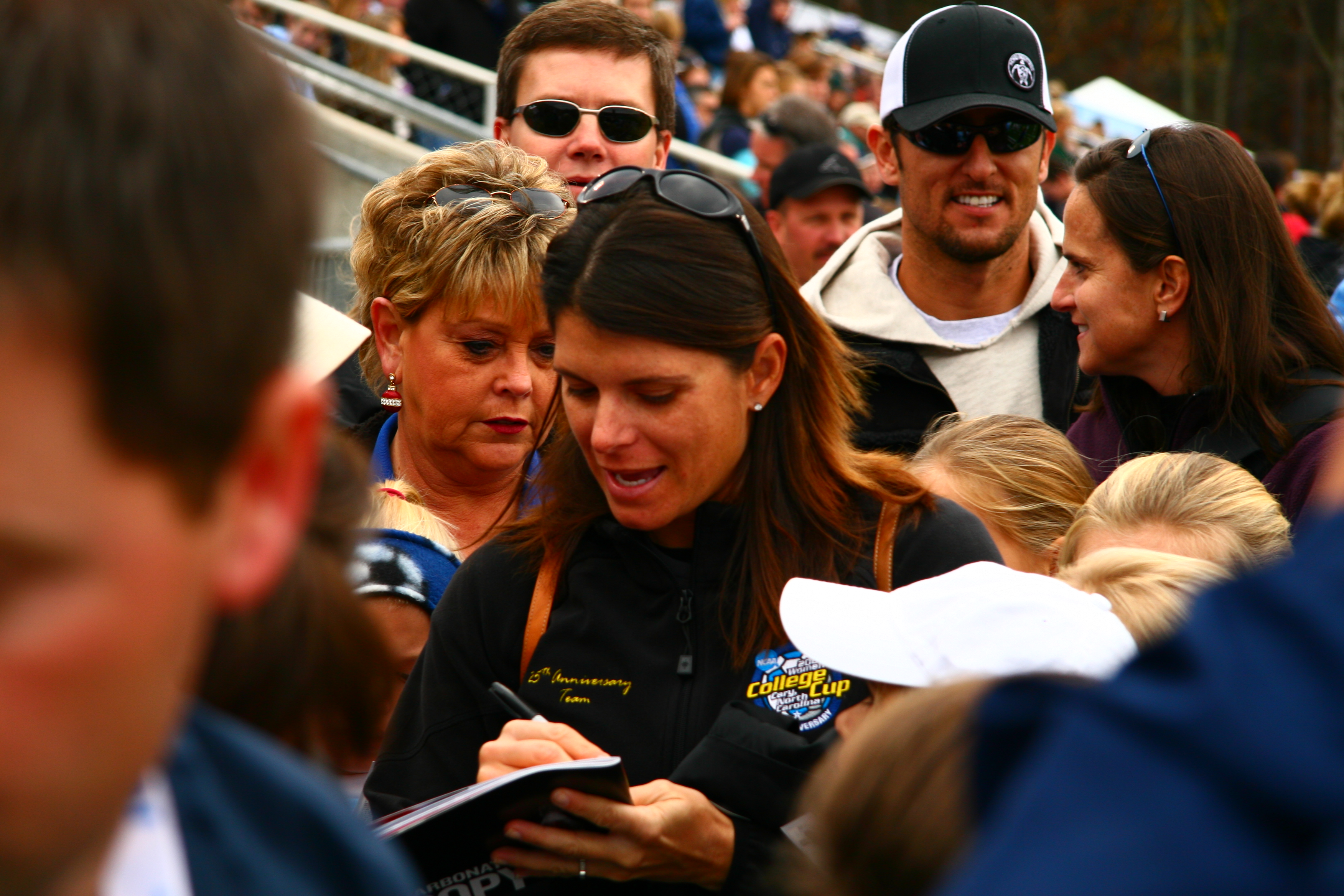 Retired soccer player Mia Hamm and husband Nomar Garciaparra of the Los Angeles Dodgers